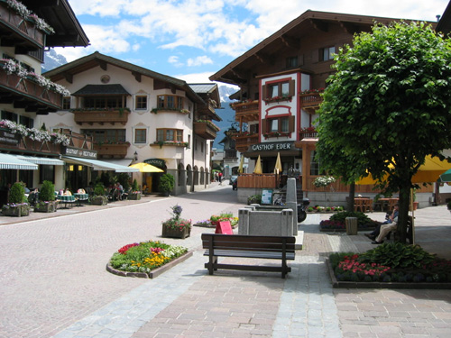 Maria Alm